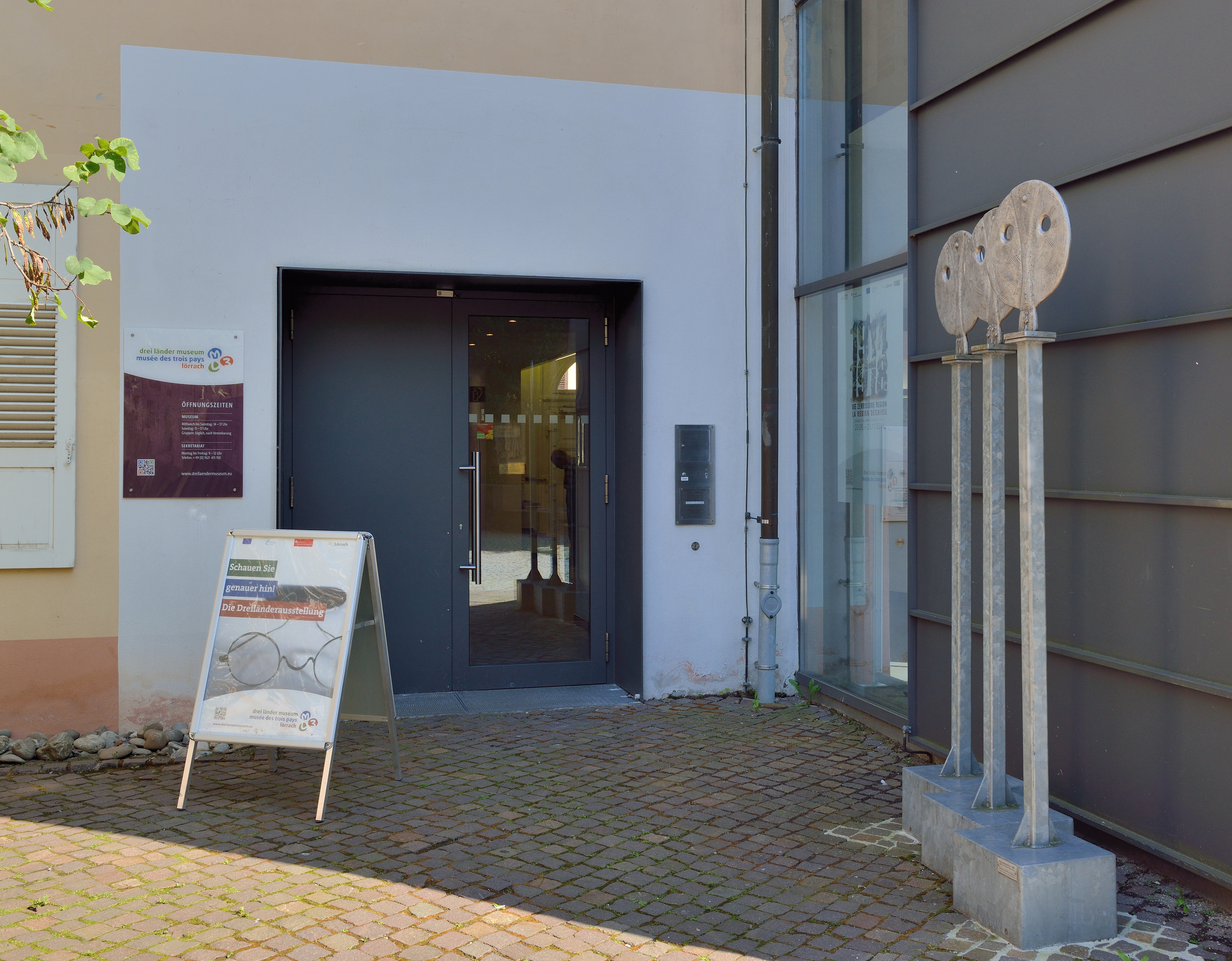 Lörrach: Museum of the three countries (Dreiländermuseum)